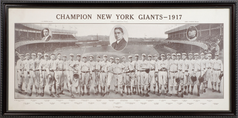 1917 Champion New York Giants Team Photo